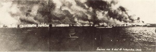 Smyrna fire, A wide view of the city on fire. 14.Sep.1922. 06:00 AM.